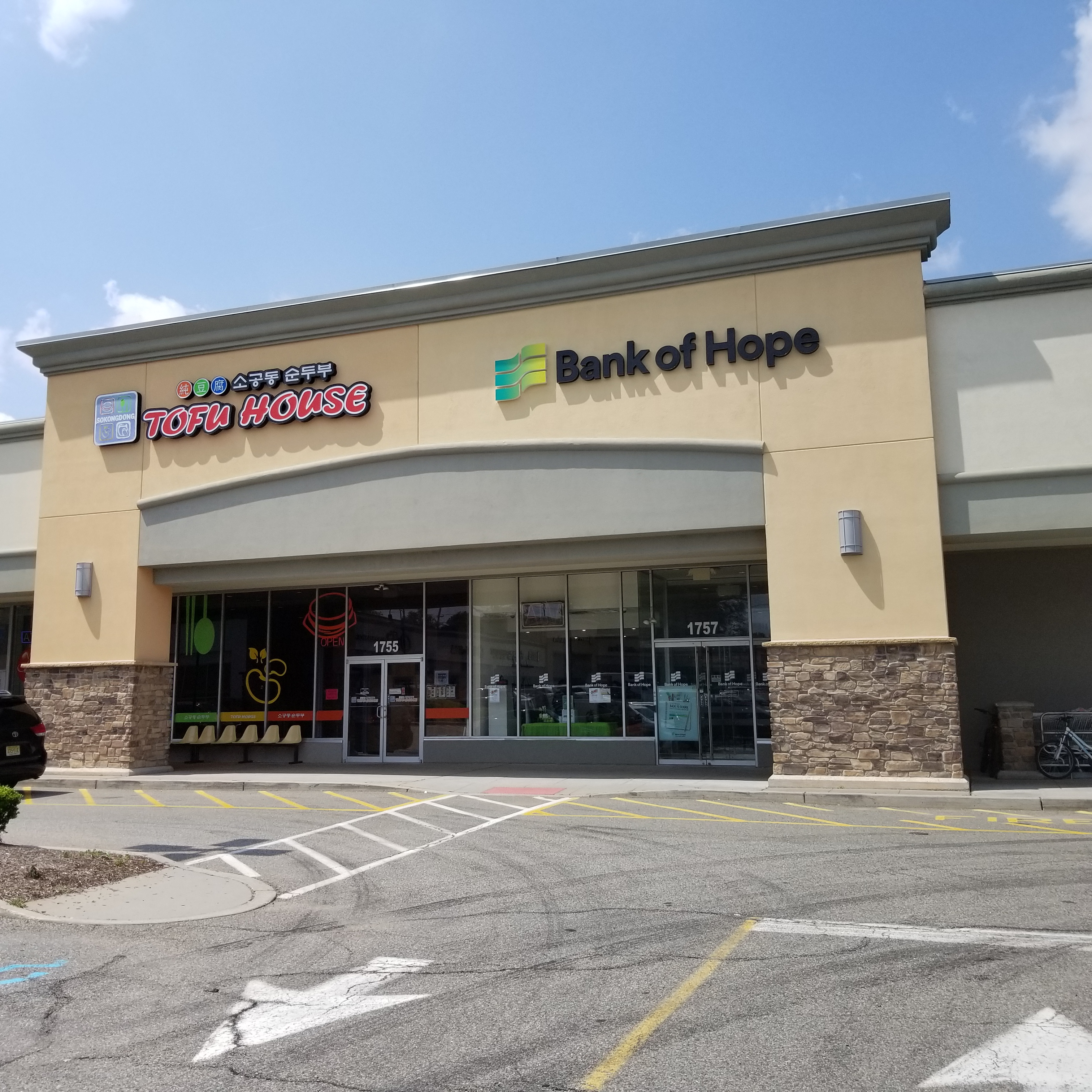 Sign in Edison NJ about Bank of Hope and Tofu House